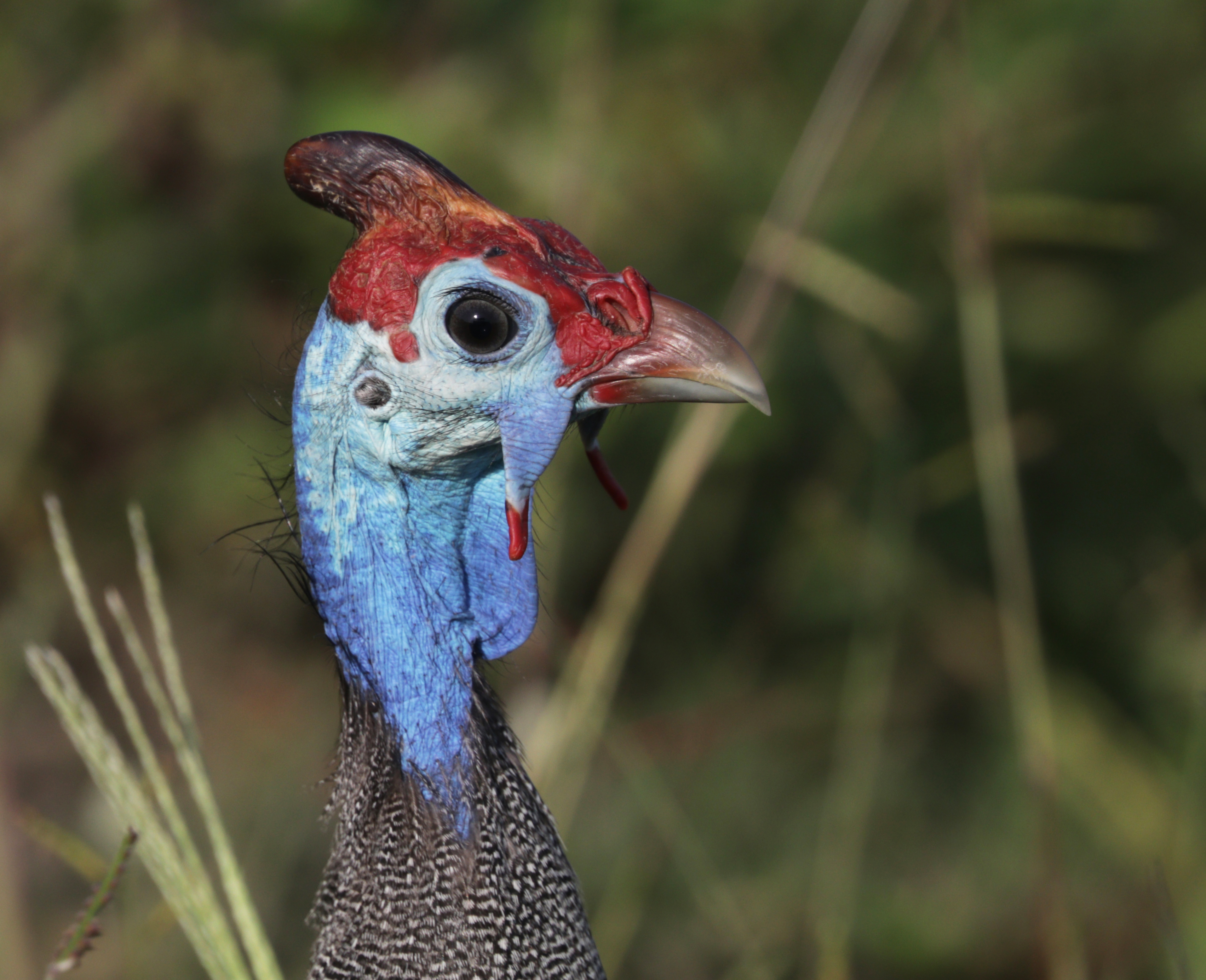 Helmeted guineafowl (Numida meleagris damarensis), Matetsi Safari Area, Zimbabwe